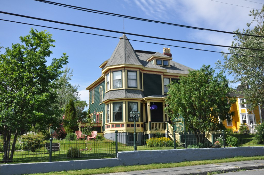 Rothesay House, Munn/Godden Residence, Harbour Grace, Newfoundland